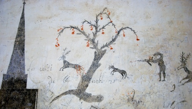 graffiti of prisoners.